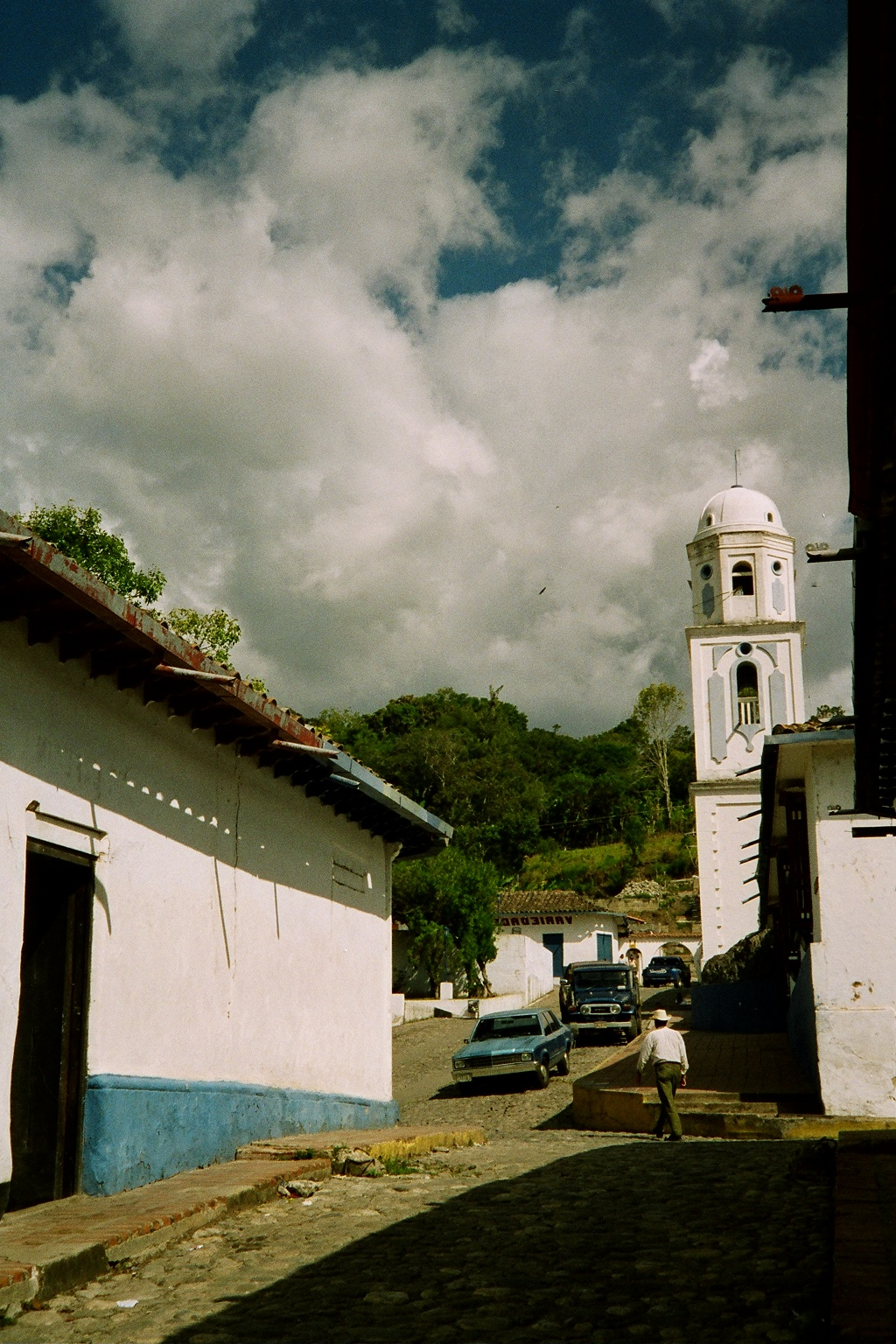 Street and church in Jají, Venezuela.